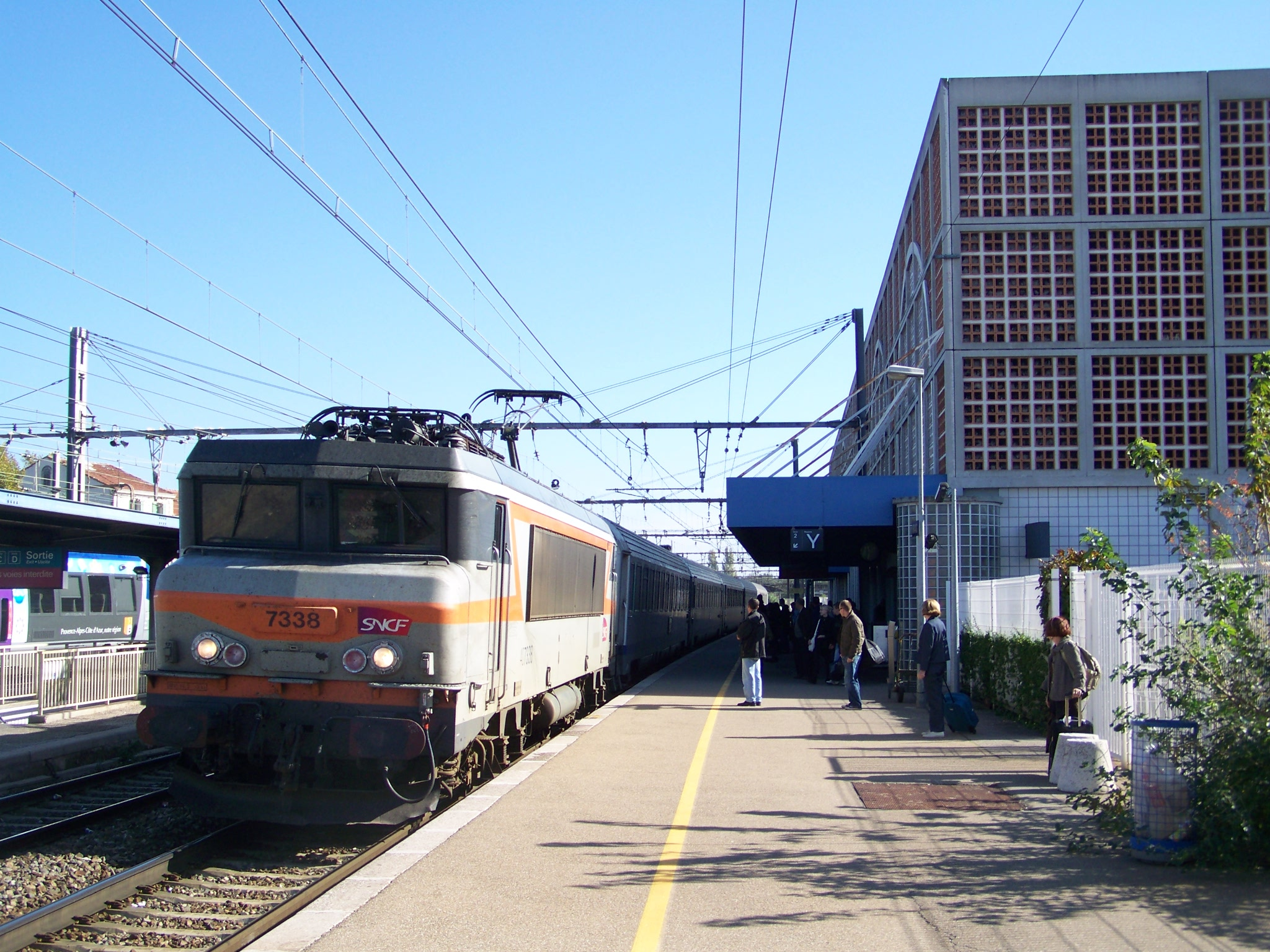 French regional coming from Marseille and moving to Lyon is entering the station of Miramas in the department of Bouches-du-Rhône.